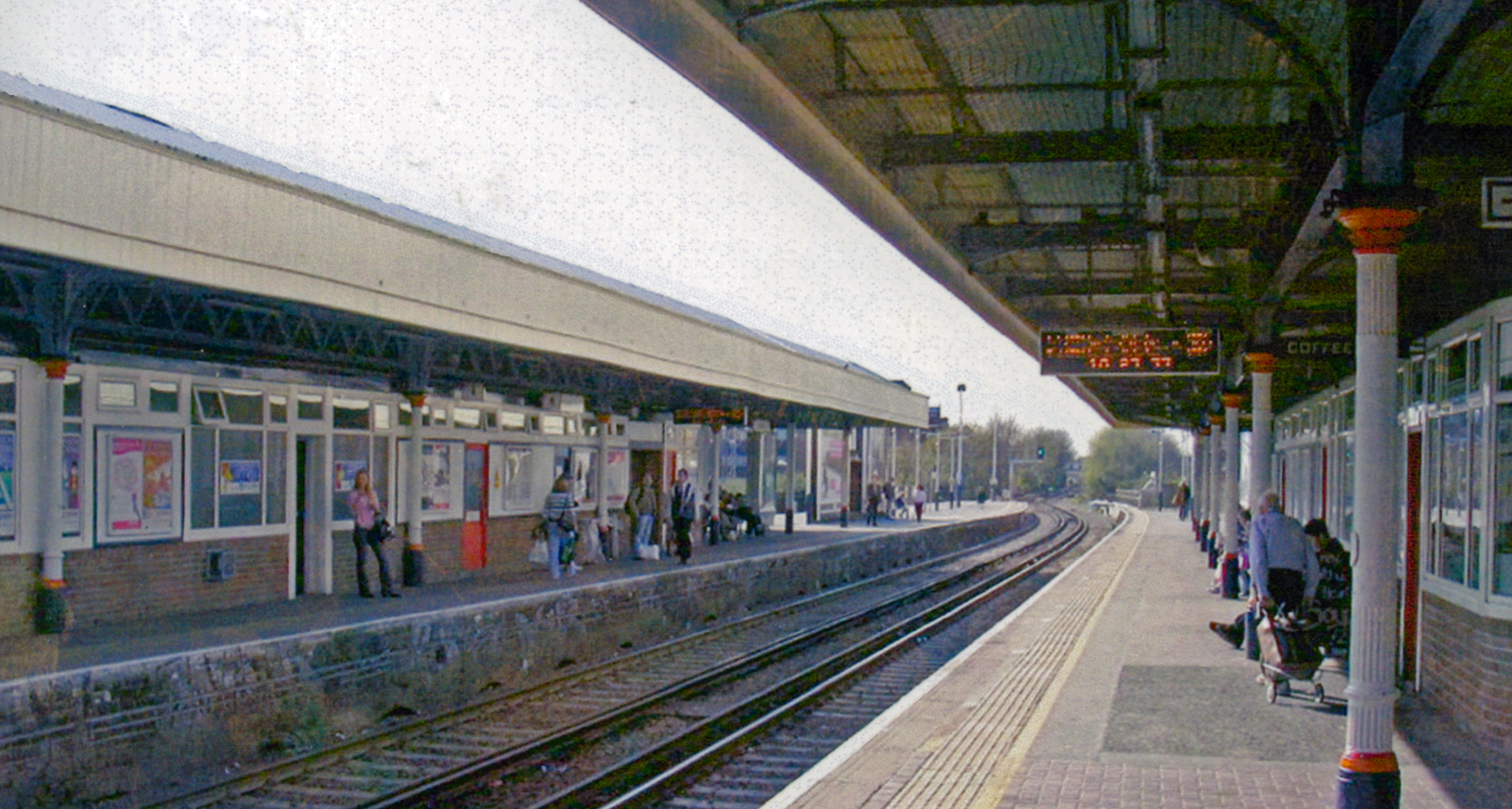 Kingston station, 2007View westward on the Up platform, towards Teddington/Shepperton - Twickenham - Richmond and Waterloo, from Wimbledon and Waterloo, ex-LSWR.